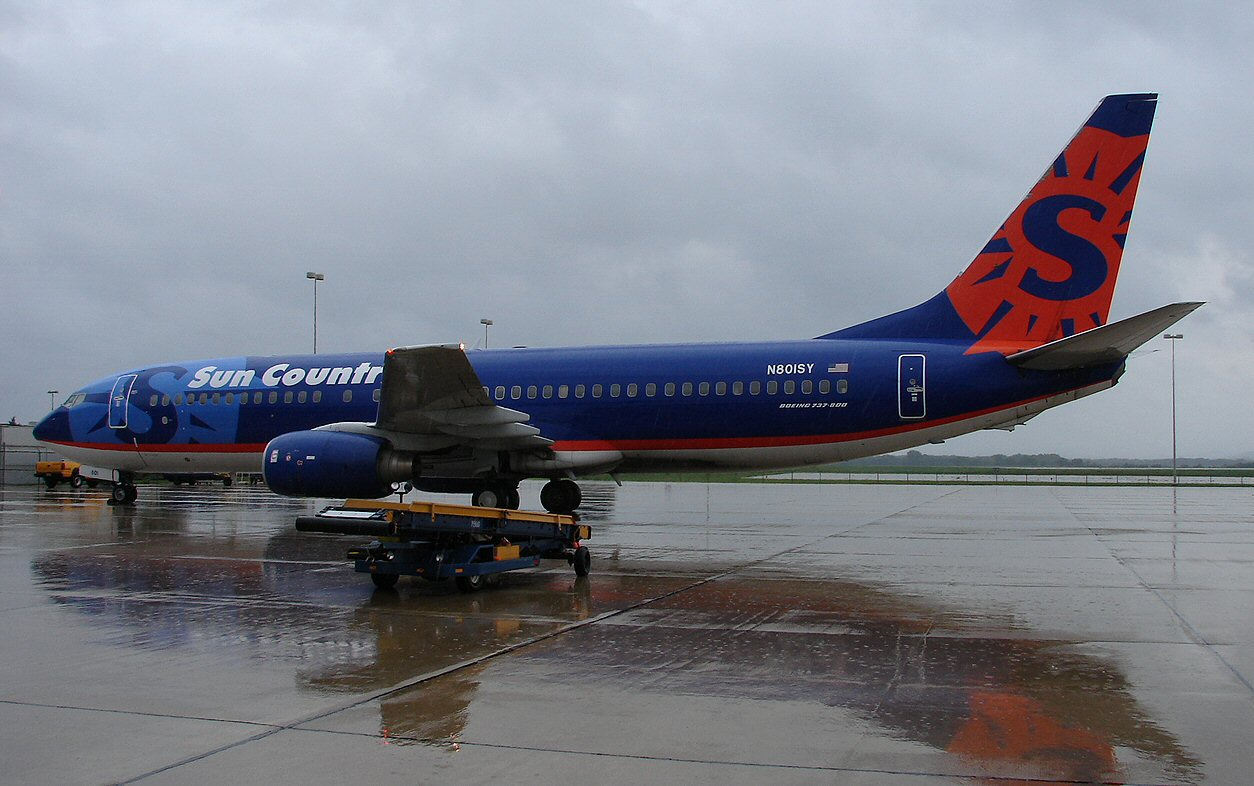 a rare but welcome Boeing product here at LSE